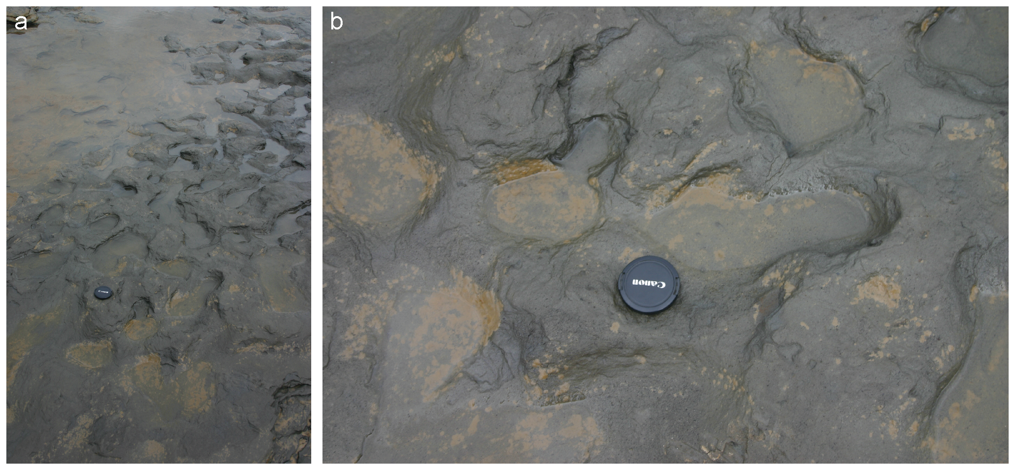 Figure 5. Photographs of Area A at Happisburgh. a. Footprint surface looking north-east. b. Detail of footprint surface. Photos: Martin Bates.